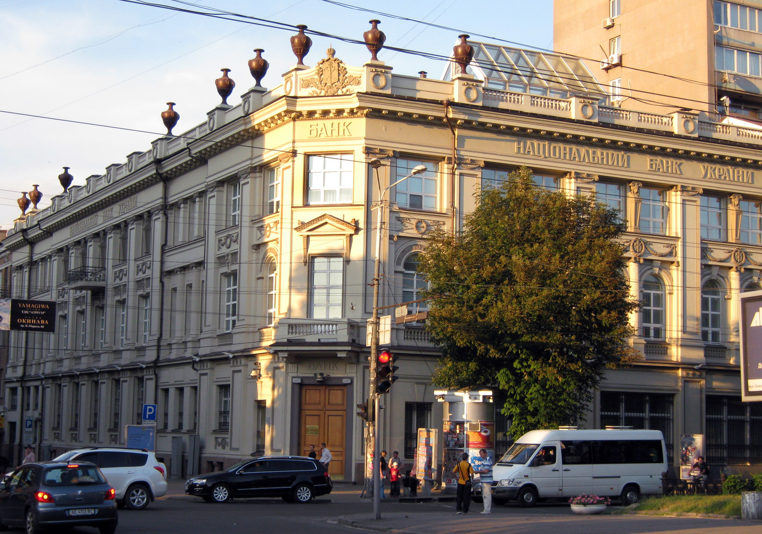 Department of National bank of Ukraine in Dnipropetrovsk.